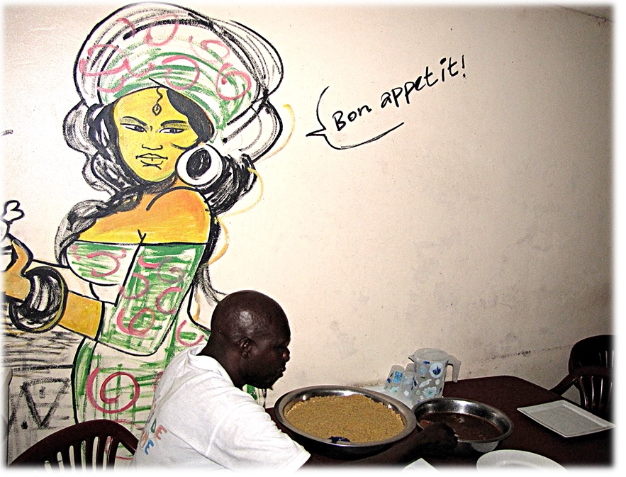 Decor for Senegalese couscous thièré with mutton in groundnut sauce This is an image of food from Senegal